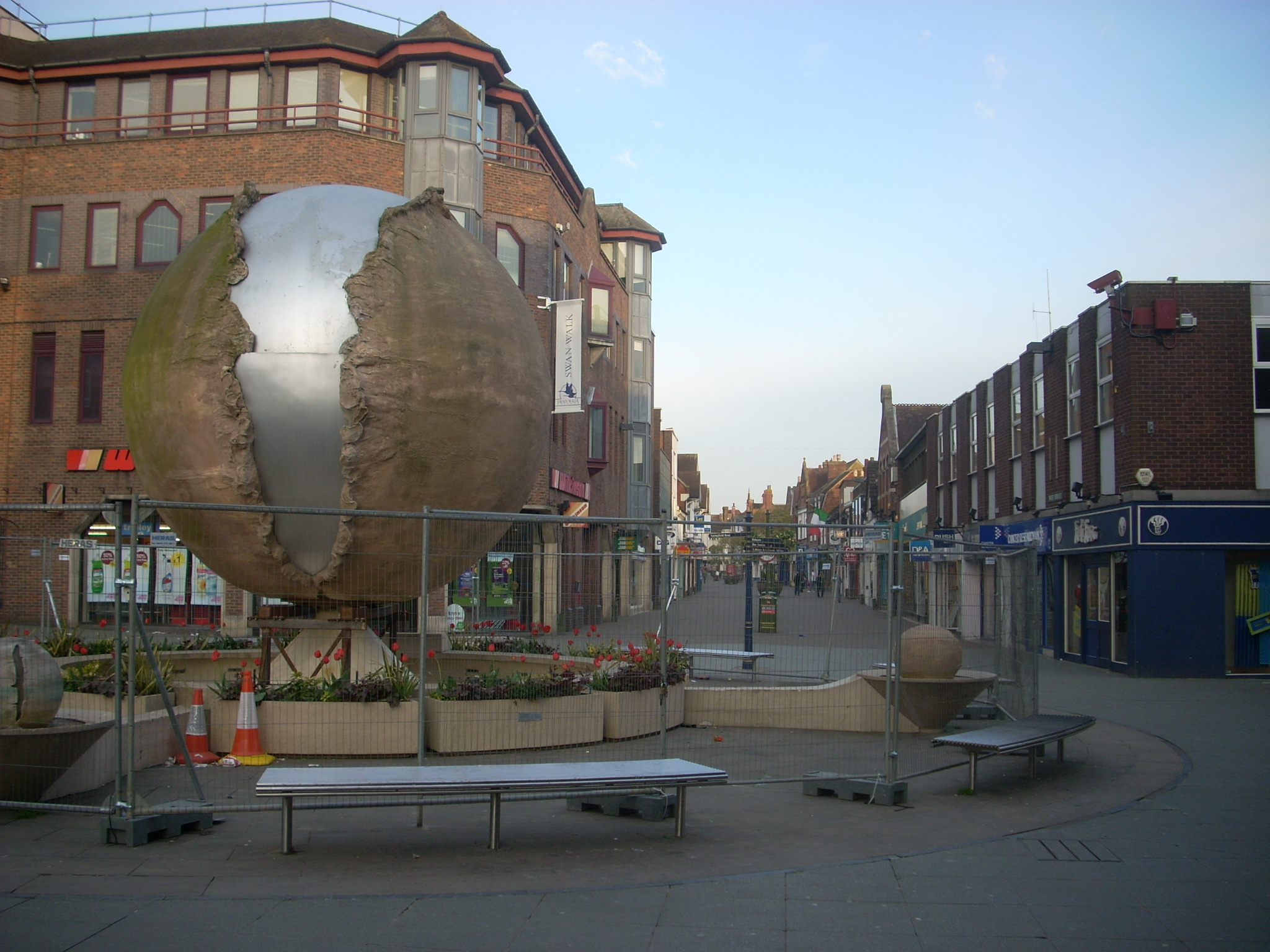 Shelley fountain under repair April 2009, Horsham